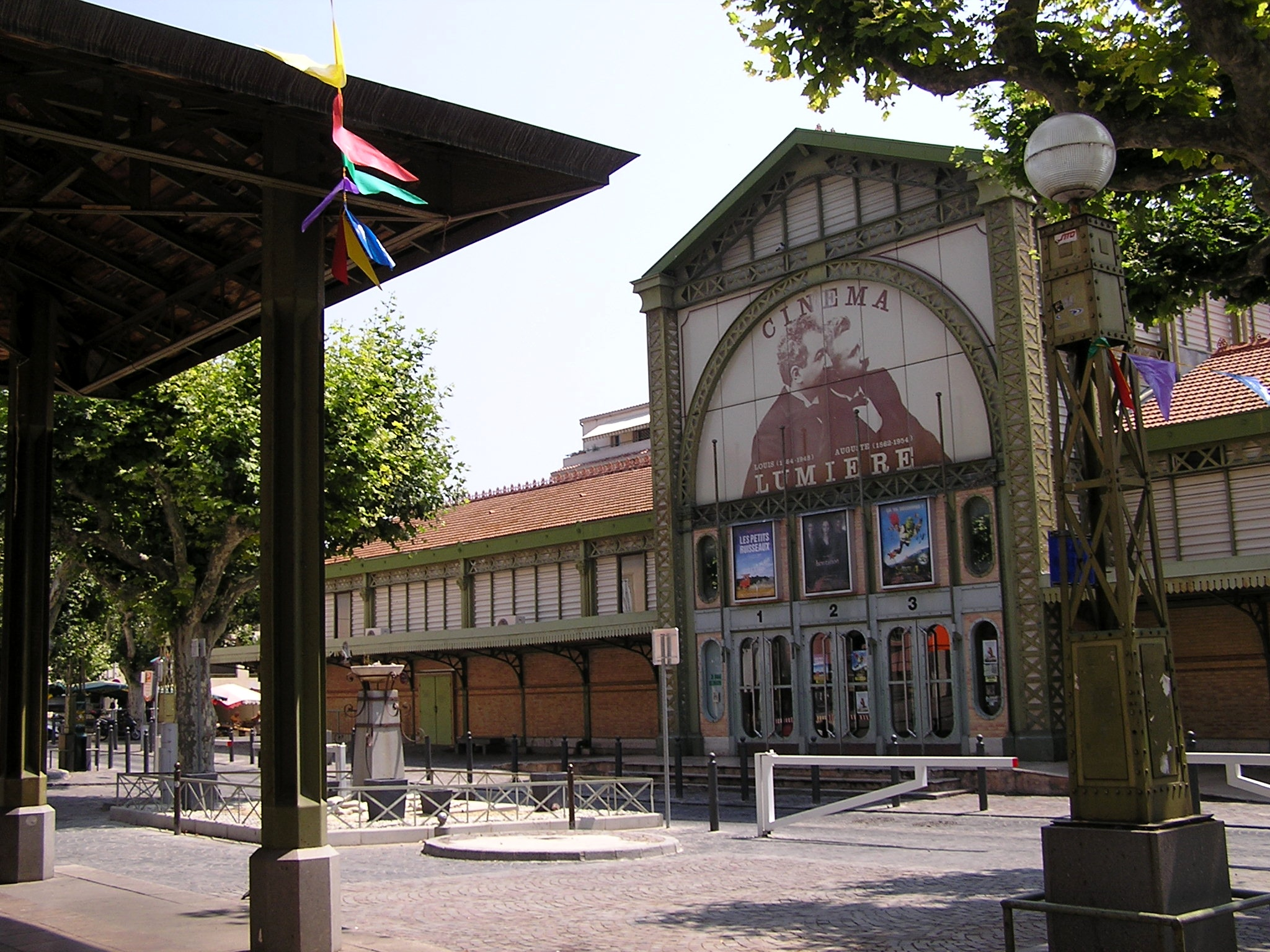 Kino bratří Lumièrů.